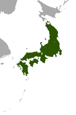 Japanese Hare (Lepus brachyurus) range